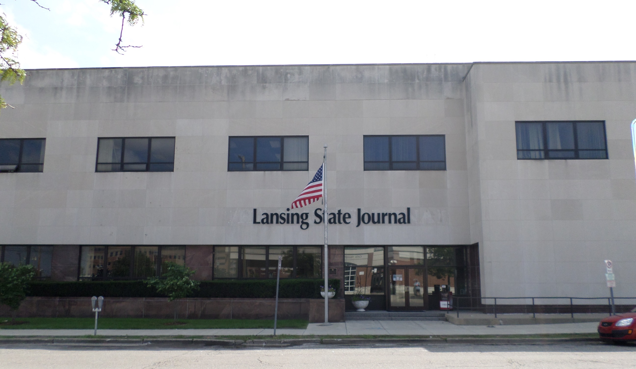 The Lansing State Journal headquarters, located at 120 E Lenawee St, Lansing, MI